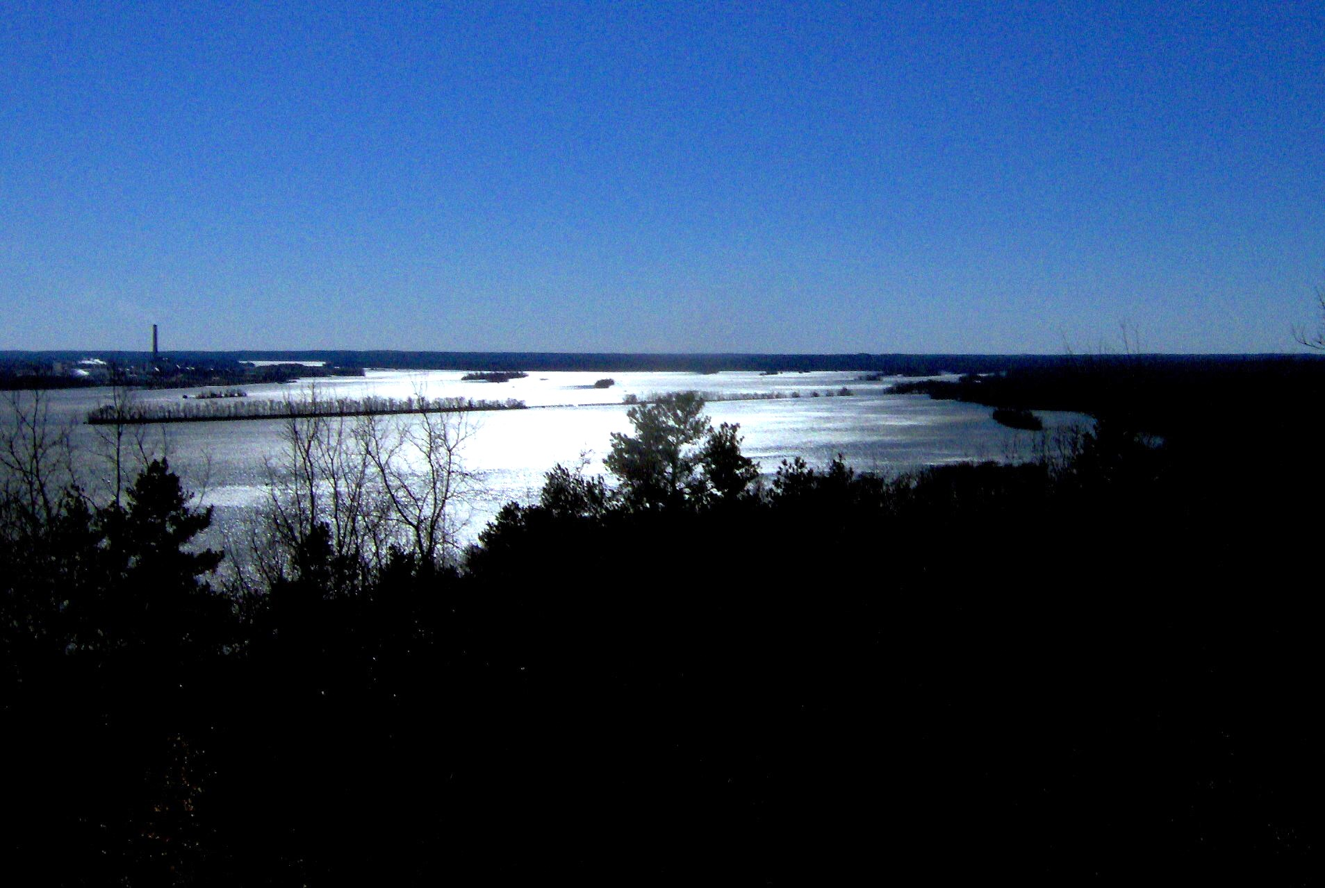 The view looking south the summit of Pilot Knob at Nathan Bedford Forrest State Park in Benton County, Tennessee, in the United States. The Kentucky Lake impoundment of the Tennessee River is below. Pilot Knob is the highest point in West Tennessee.